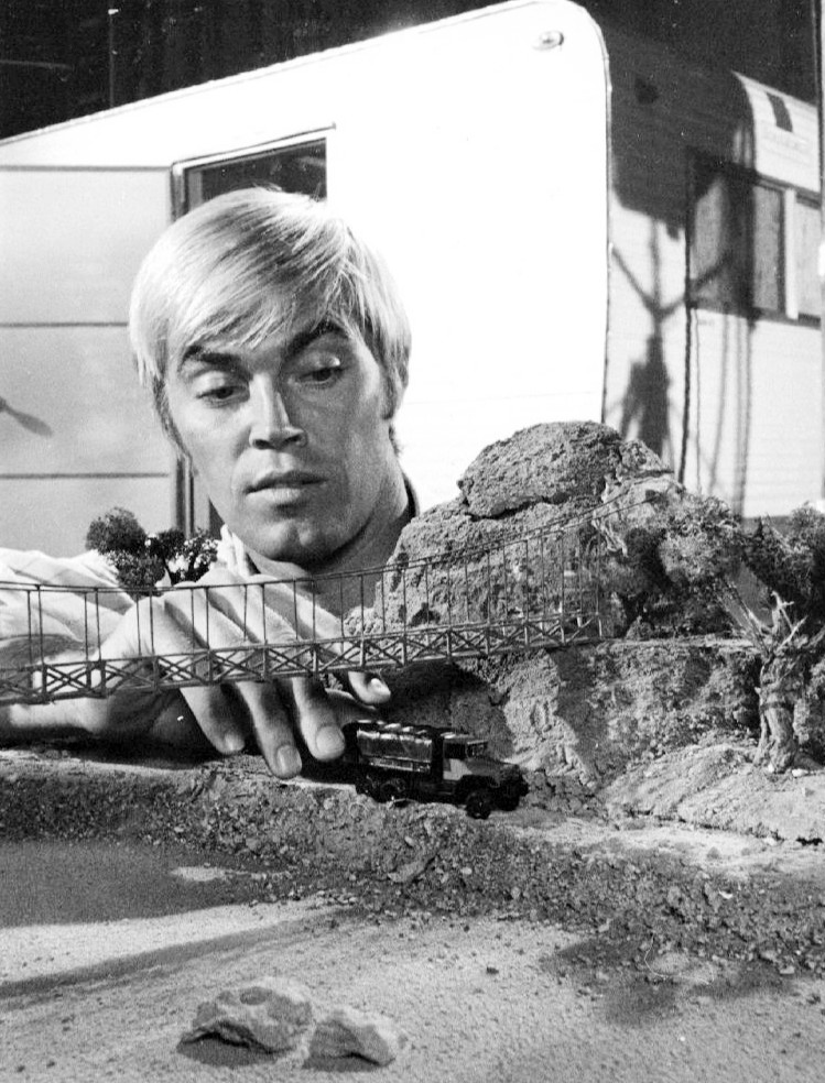 Photo of Dennis Cole as Davey Evans, a film stuntman, from the television series Bracken's World. He's planning a potentially dangerous stunt by working with a model.